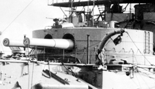 Photograph of forward 13.5 inch gun turret on British battleship HMS Hood circa. 1890s.